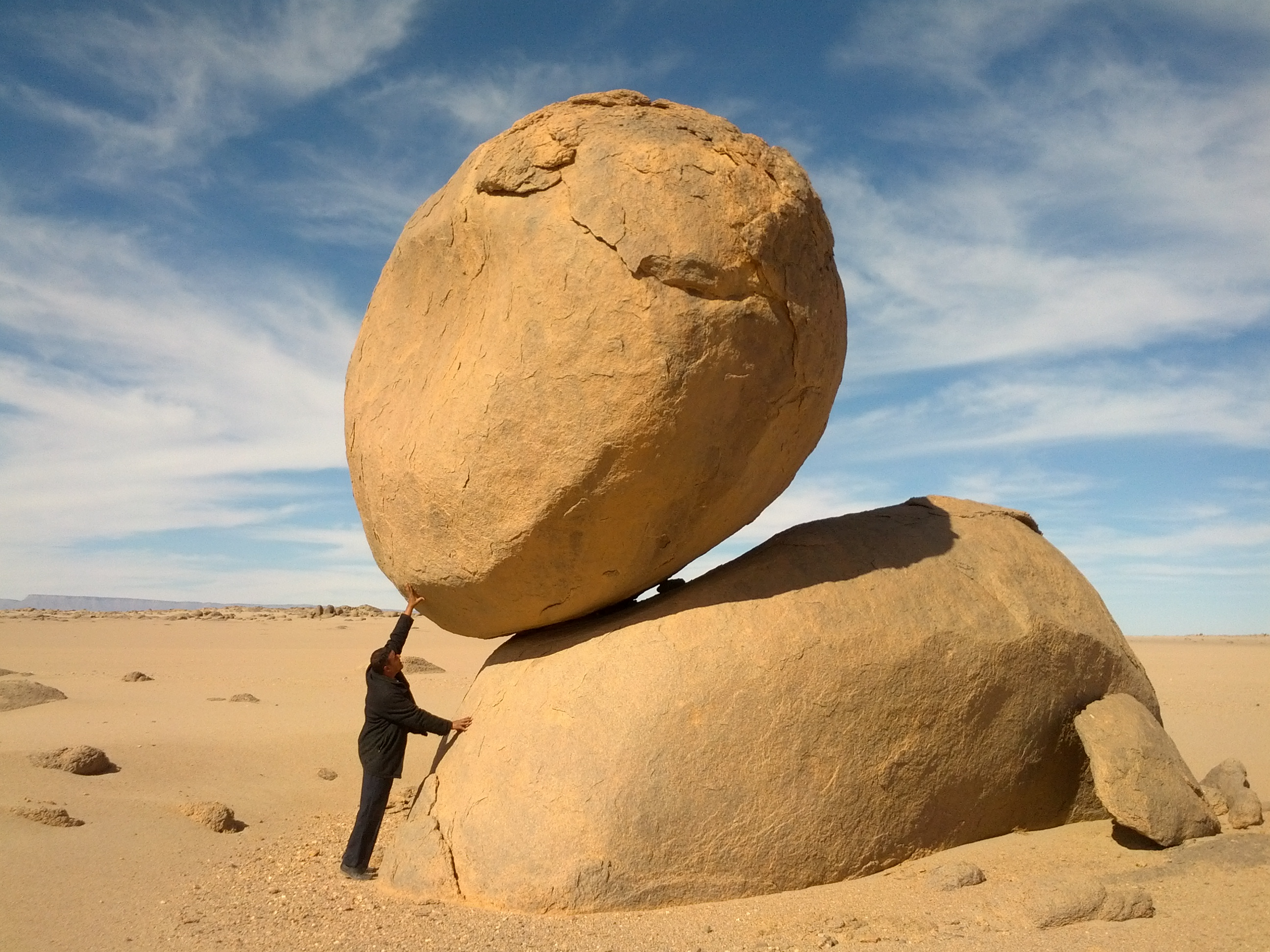 Amguid, Tamanghasset province, Algeria